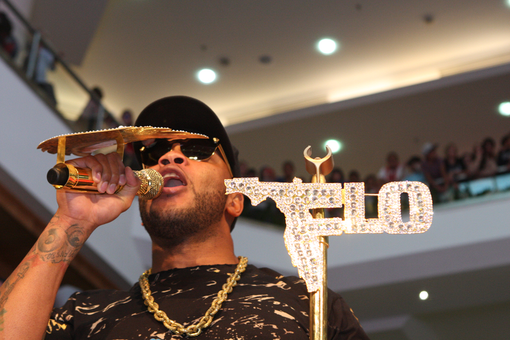 Flo Rida raps in Australia; Parramatta, Sydney, Australia 2012.